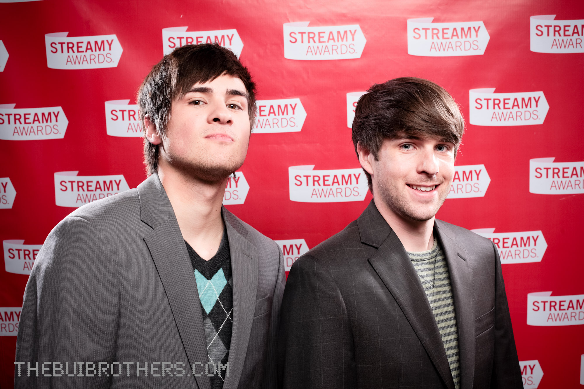 Thanks for viewing the official Streamy Awards photos! The exclusive photos of the winners and presenters are here. You don't want to miss those! We could not have done this without our awesome team of associate photographers: Bonny Pierzina Gabriel Ryan Laura Kearse Joe Philipson Kevin Calumpit Luis Miguel Munoz-Najar Actually, without our production team we could not have done this either: Josh Allard Megan Chrisofferson Mark Bealo Scott Kearse Thanks so much everyone for your hard work, and thanks so much Streamy Awards for using us again for the official photography! Please feel free to use these photos under a Creative Commons Attribution license (which means you may use the photos as long as you attribute the photos to and provide a link back to ) You can learn more about the Sreamy Awards by visiting Also, you can learn more about these photos by visiting our website with our favorite Streamy Awards photos.